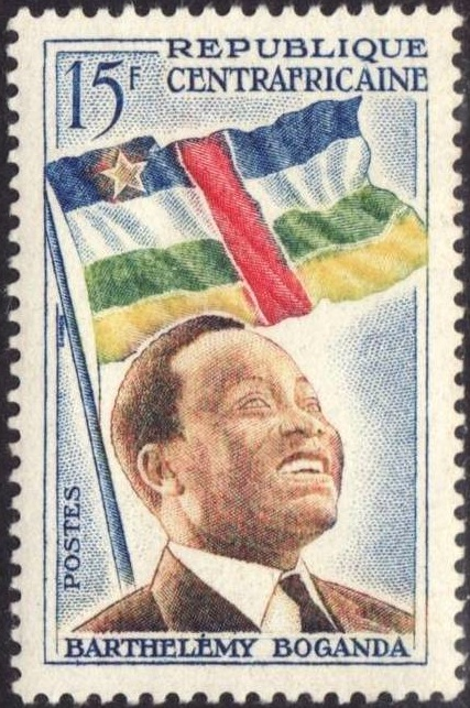 Postage stamp of the Central African Republic, featuring Barthélemy Boganda.